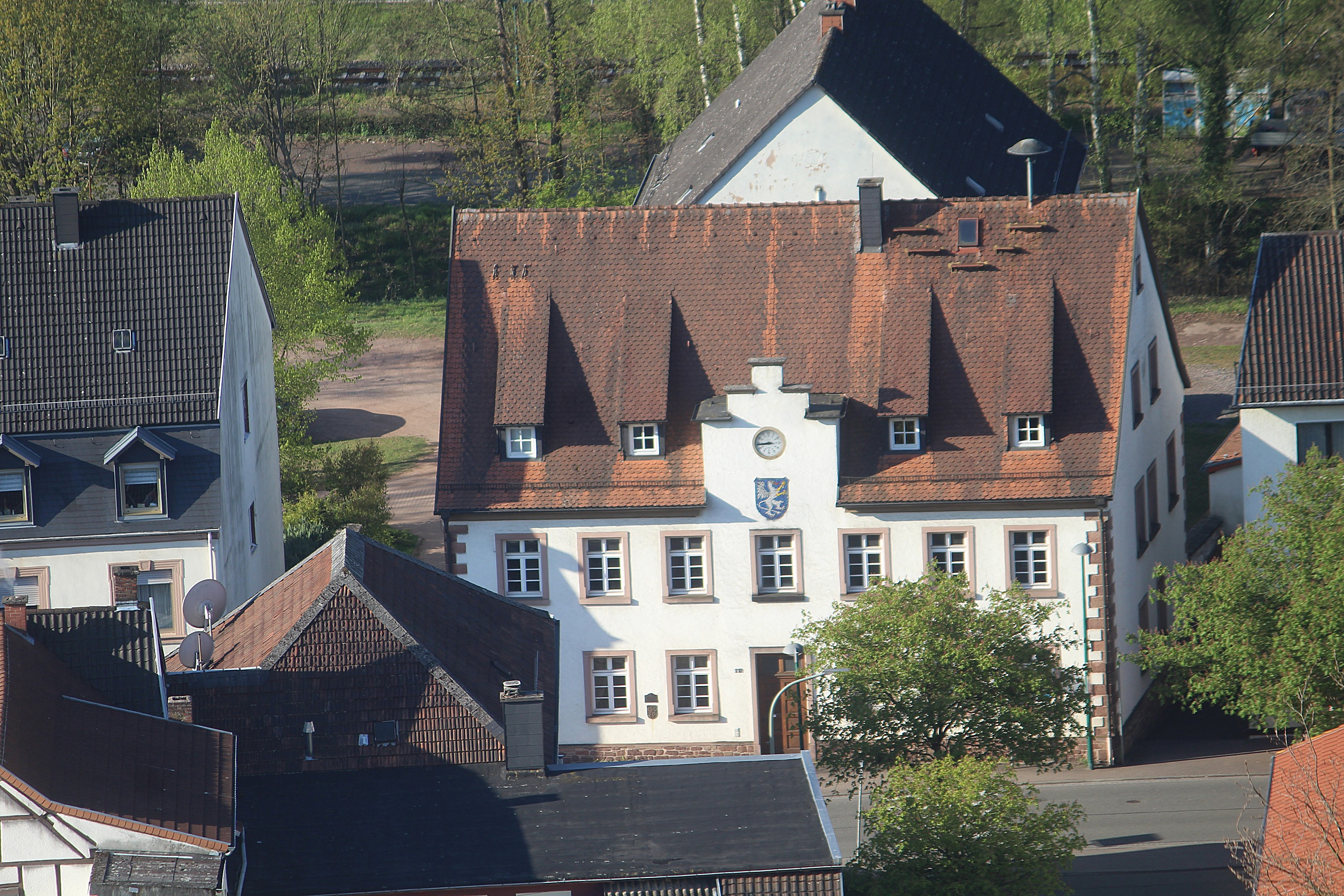 Rodalben, view from the rock "Kanzel" to the town hall